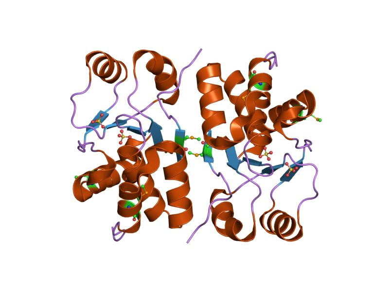 Cartoon representation of the molecular structure of protein registered with 1xri code.